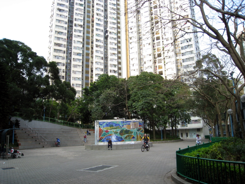 HK Pok Hong Estate Theatre